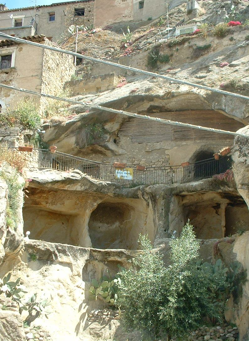 Sperlinga (EN), troglodyte caves.